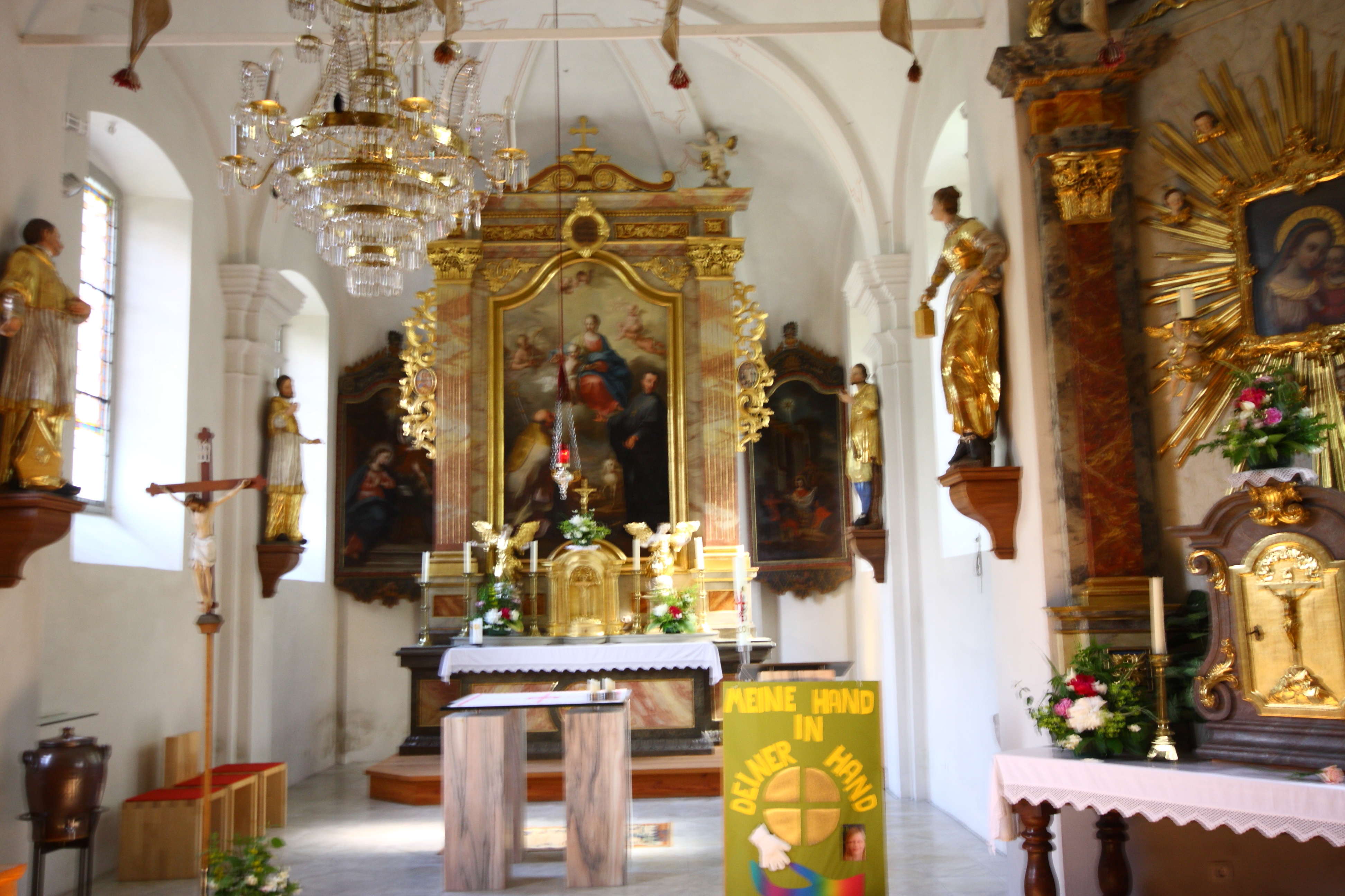 Saint Leonard Church (Donnersbachwald), Styria, Austria